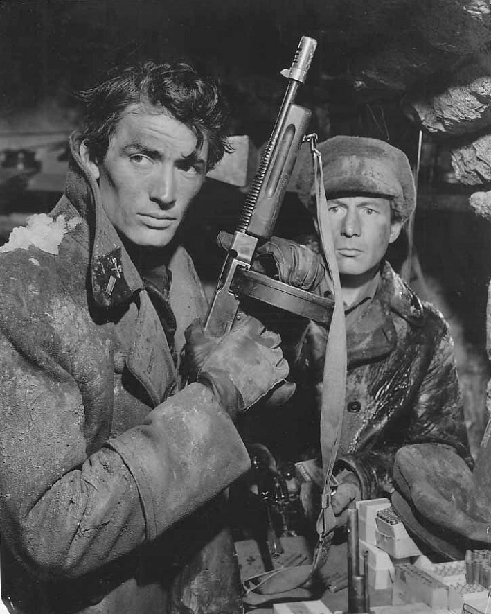 Gregory Peck in a scene from the 1944 film Days of Glory.